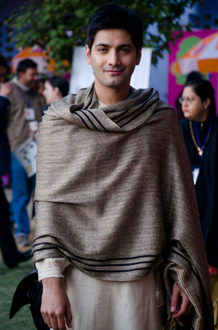 Manou Manou took this one impromptu.